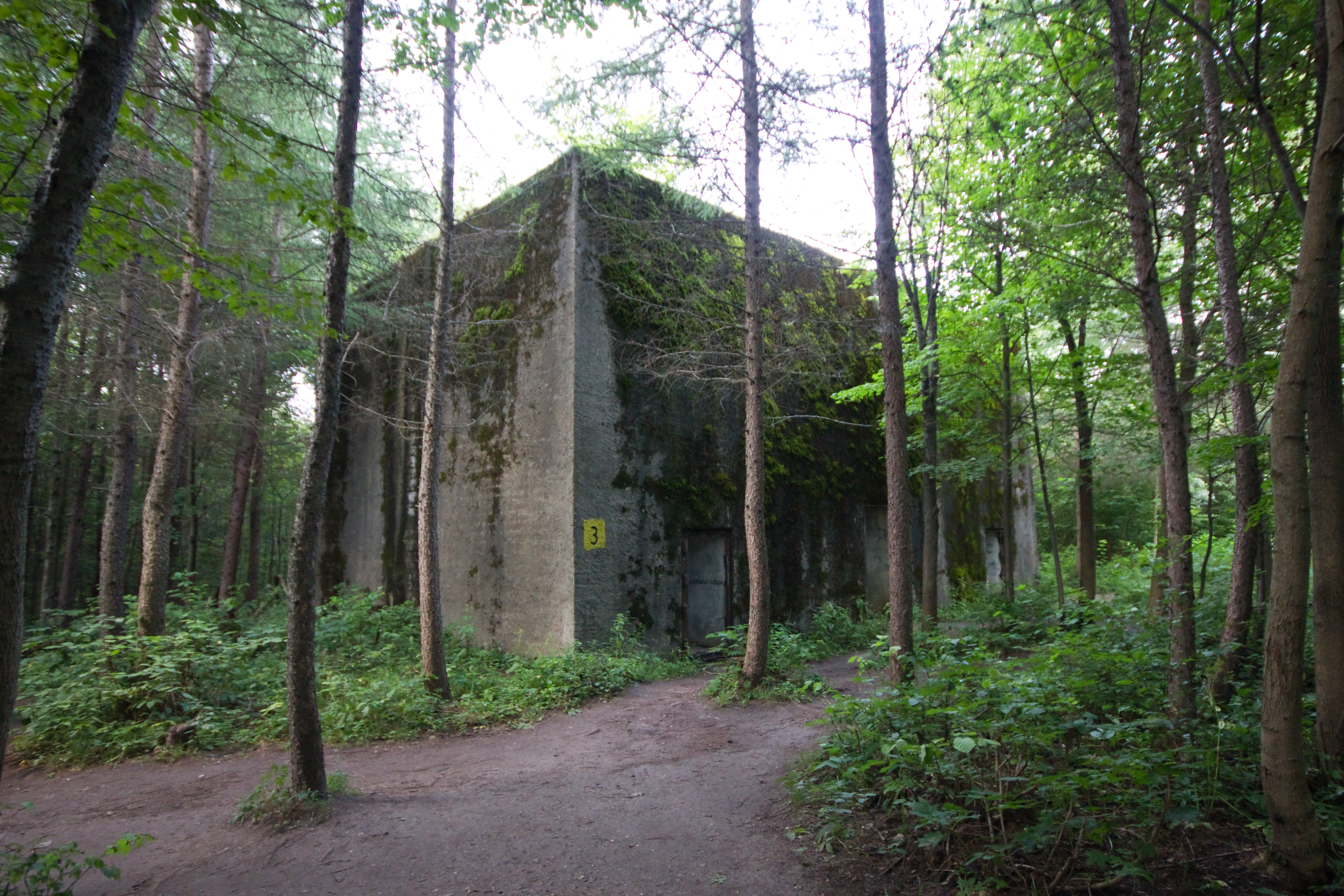 Mamerki, gmina Węgorzewo, powiat węgorzewski, Warmian-Masurian Voivodeship